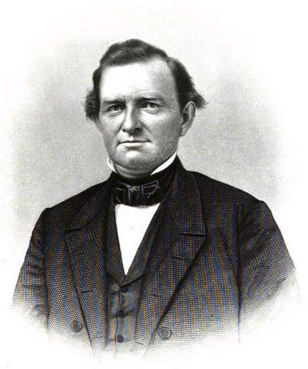 "The Centennial Record of Freewill Baptists, 1780-1880" Published by [Freewill Baptist] Printing Establishment, 1881, pg. 51